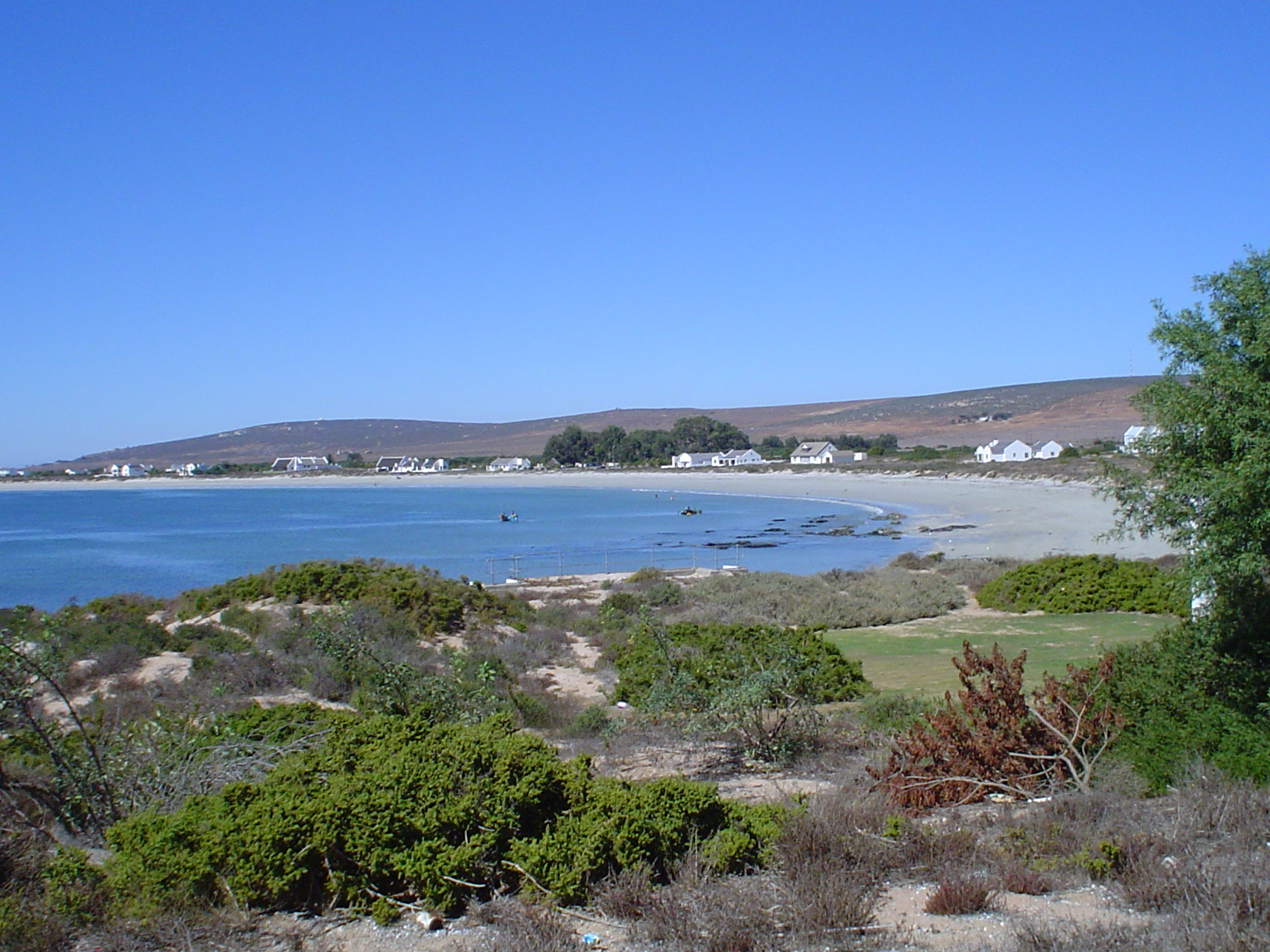 Tractor pulling boat from water in Britannia Bay